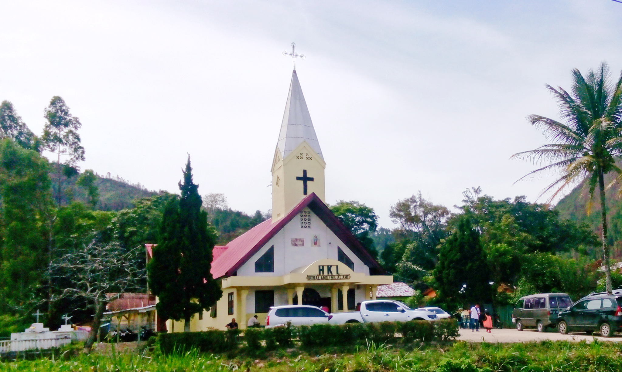 HKI Hinalang Silalahi, Church in Hinalang, Balige, Toba Samosir.